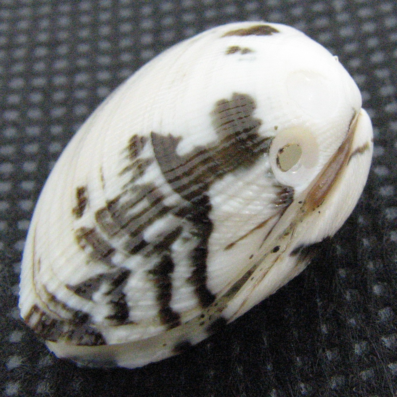 A bivalve Ruditapes philippinarum (Synonyms: Venerupis philippinarum) which has been drilled near the umbo by the gastropod Glossaulax didyma (synonyms : Polinices didyma; Neverita didyma). Makuhari beach, Chiba Japan.